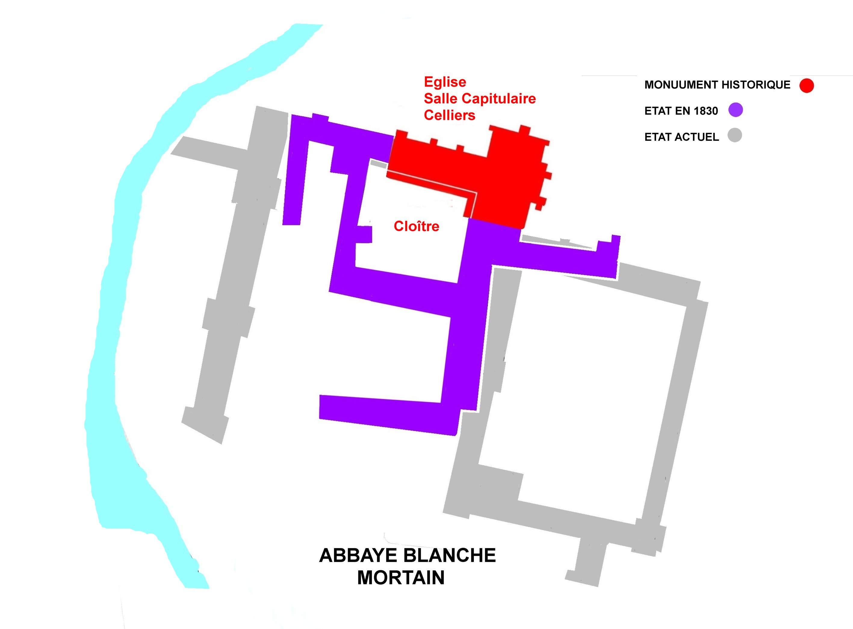 Plan de l'Abbaye Blanche de Mortain, état actuel sur cadastre napoléonien